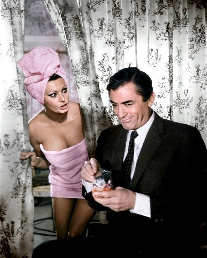 Sophia Loren and Gregory Peck in a scene from the American film Arabesque (1966).